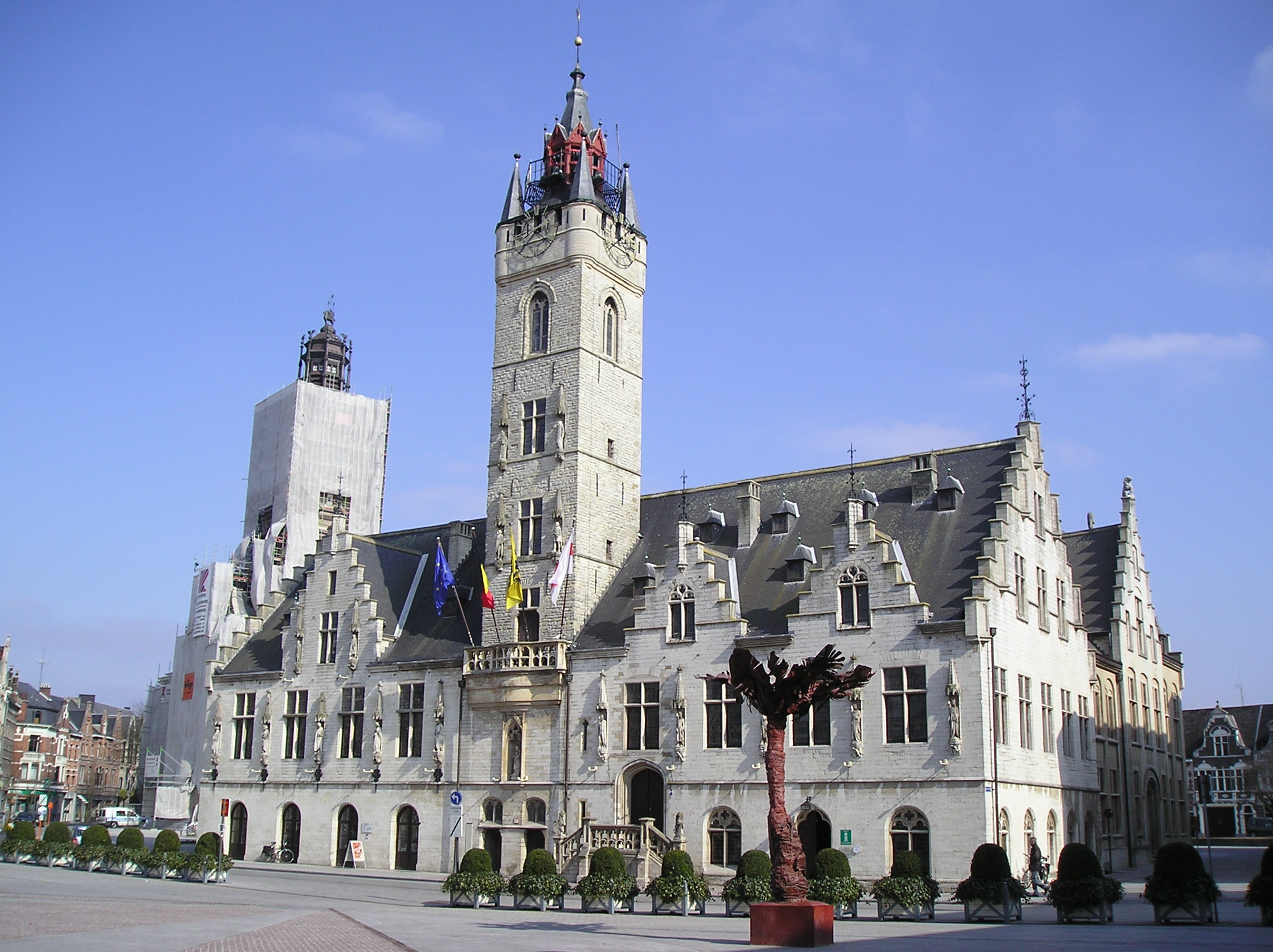 Town hall of Dendermonde (Belgium), seen from the Grote Markt square